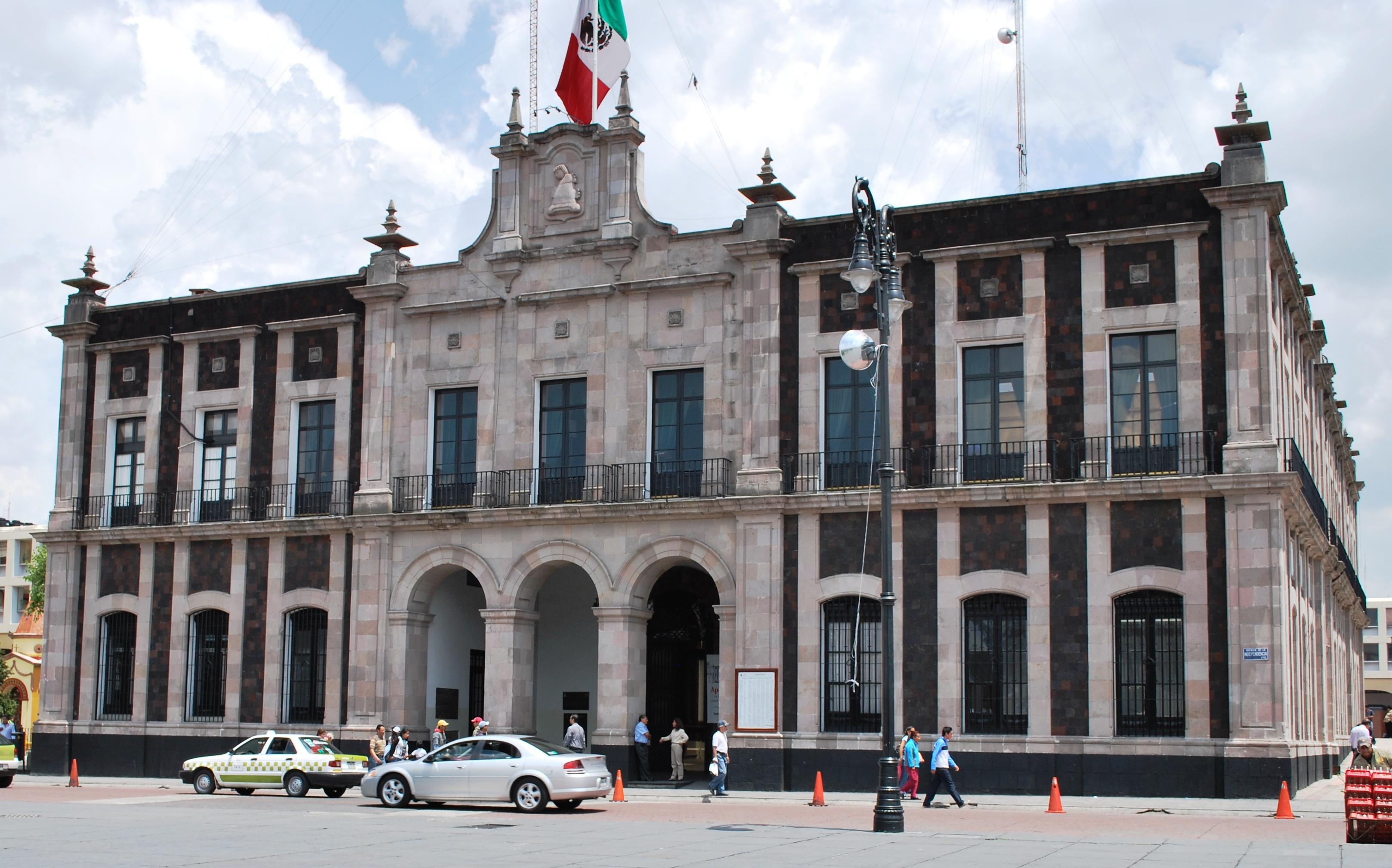 Municipal Annex building on the southeast corner of Plaza de los Martires in Toluca, Mexico State